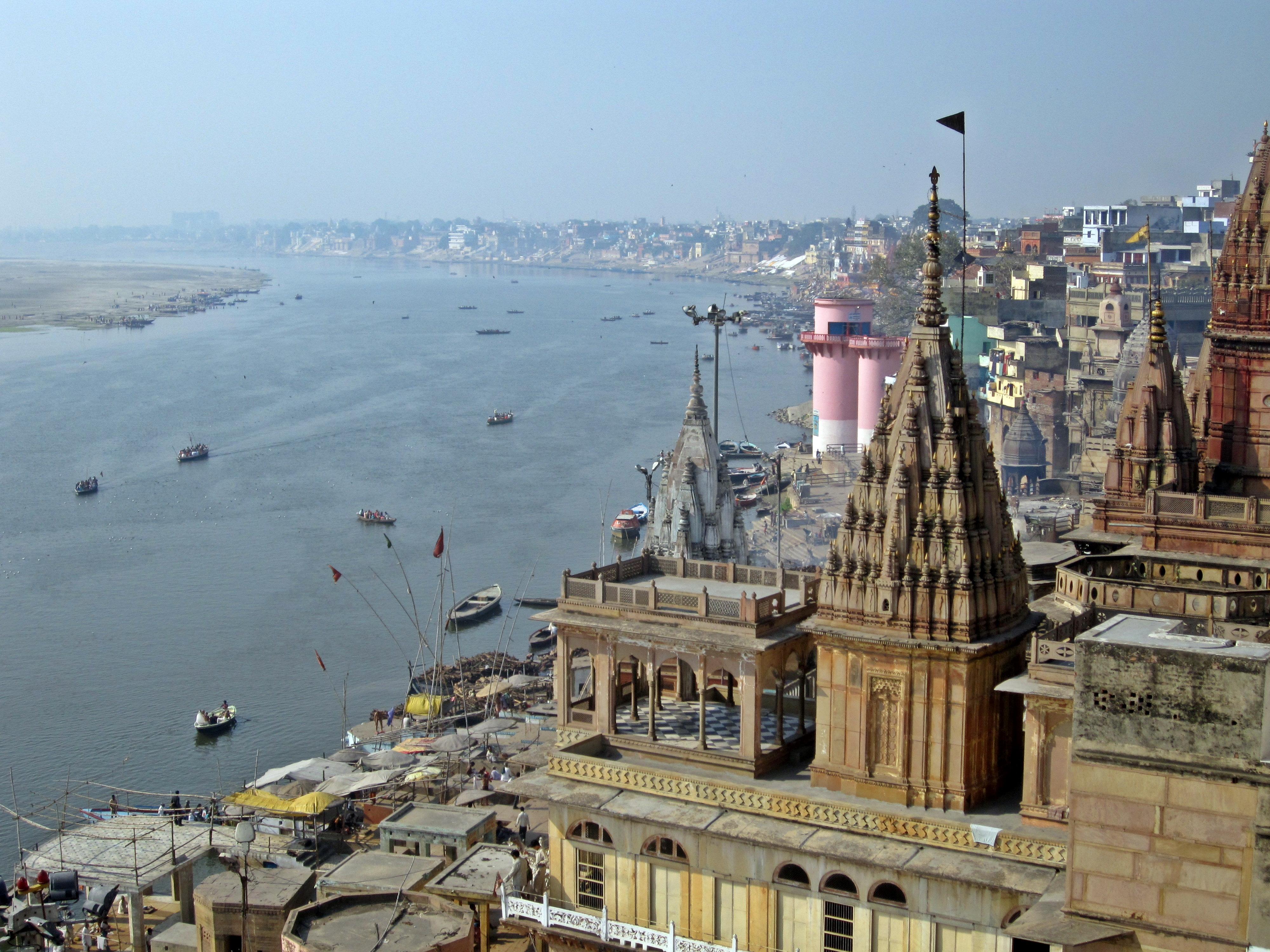 The view from our hotel balcony in Varanasi. Wonderful.